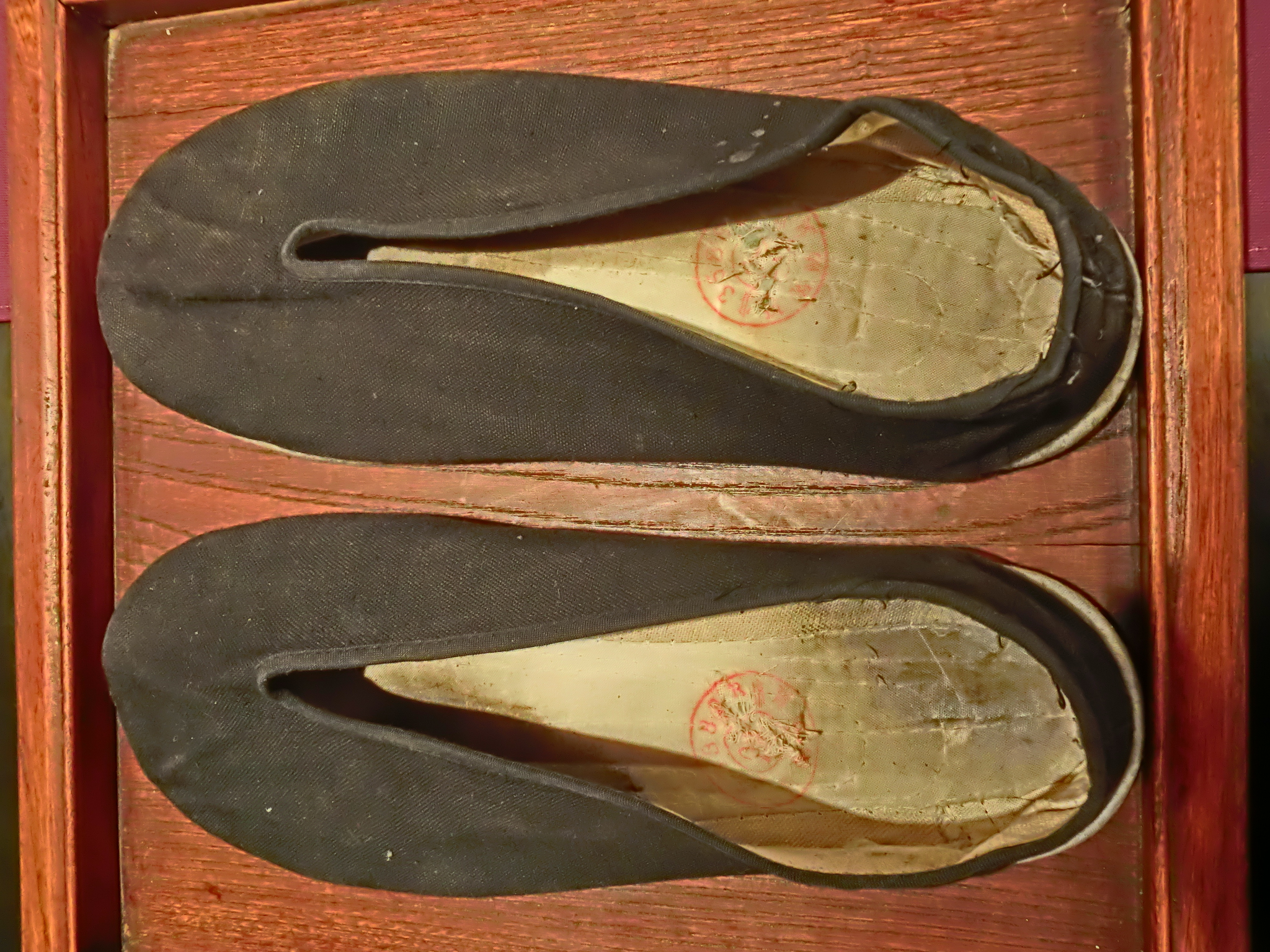 Mr Bruce Lee's belongs at Spink Auctions, 灣仔 馬來西亞大廈 Malaysia Building, No.50 Gloucester Road, Wan Chai, Hong Kong